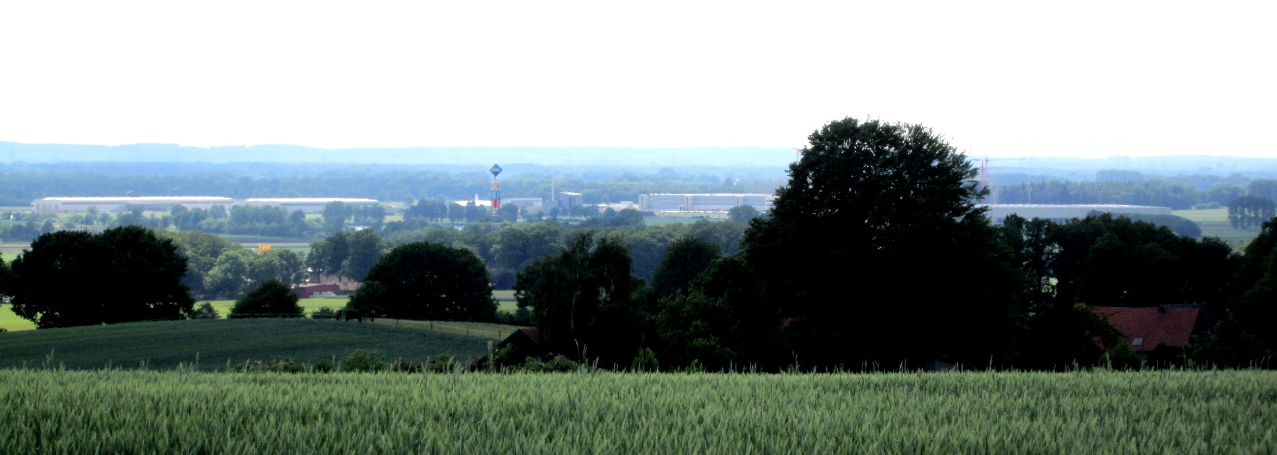 View to "Niedersachsenpark" across Freeway 1 from Damme Mountains